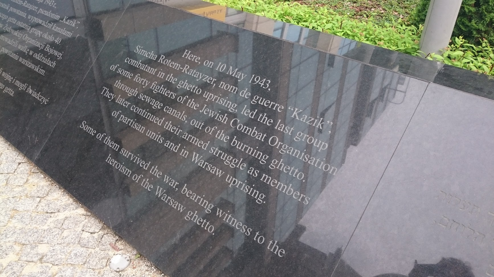 Tribute to Simcha Rotem and the Jewish Combat Organization, in central Warszaw, Poland. Photo taken in July 2015.